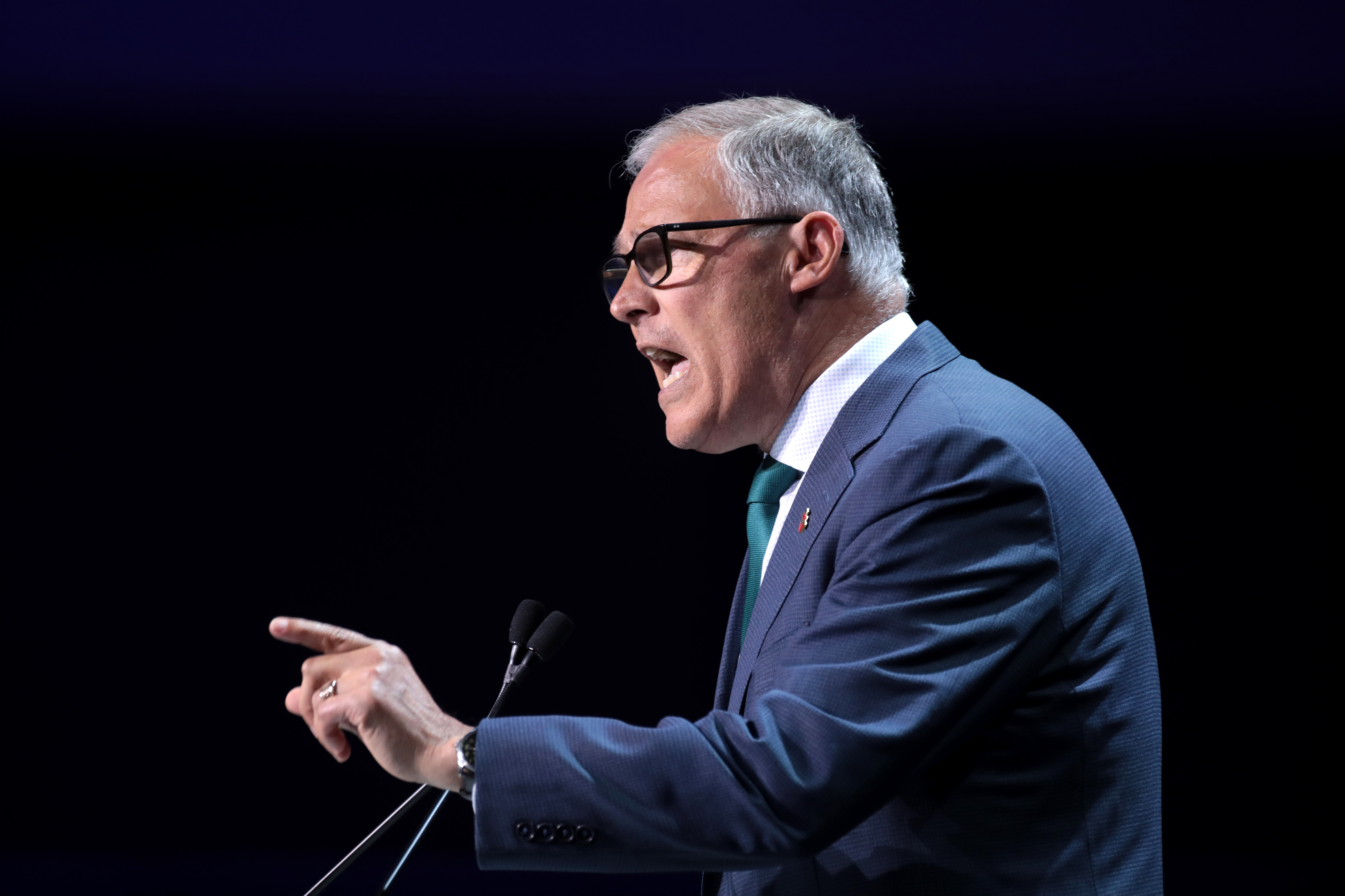 Governor Jay Inslee speaking with attendees at the 2019 California Democratic Party State Convention at the George R. Moscone Convention Center in San Francisco, California.